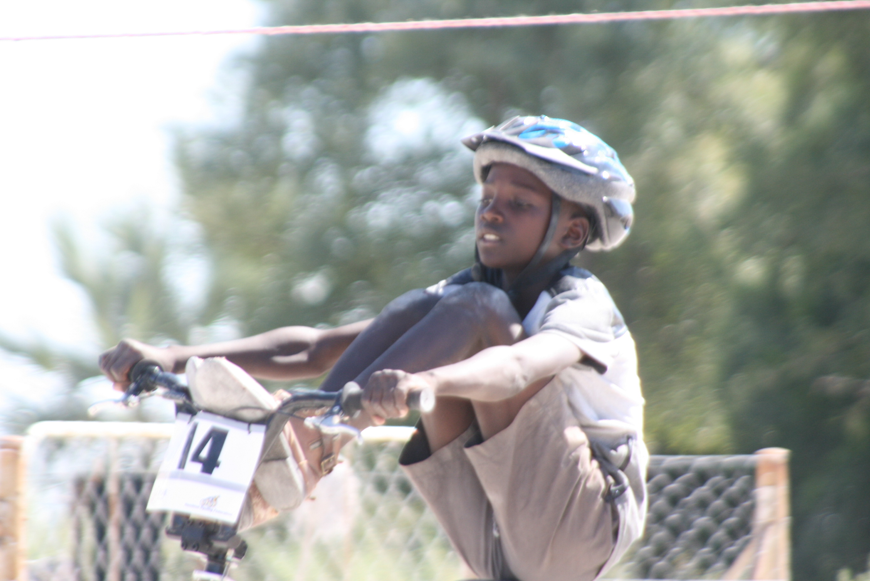 A boy shows his bike handling prowess by riding with his feet up at BMX practice centre in Namibia. This is an image with the theme "Africa on the Move or Transport" from: Namibia